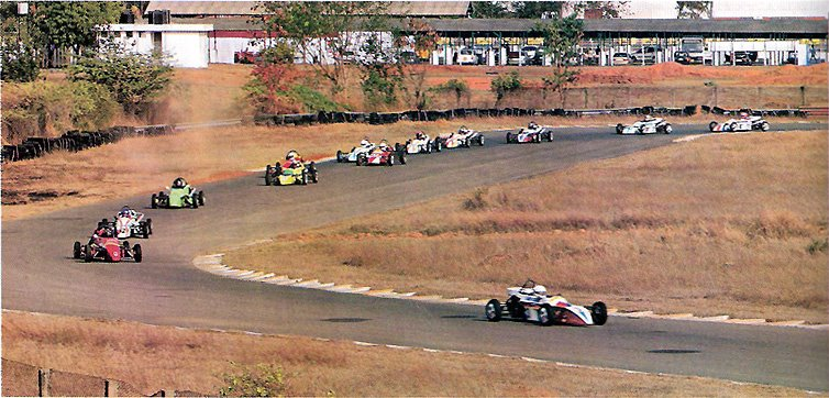 Formula Maruti. i had this picture taken by people i know